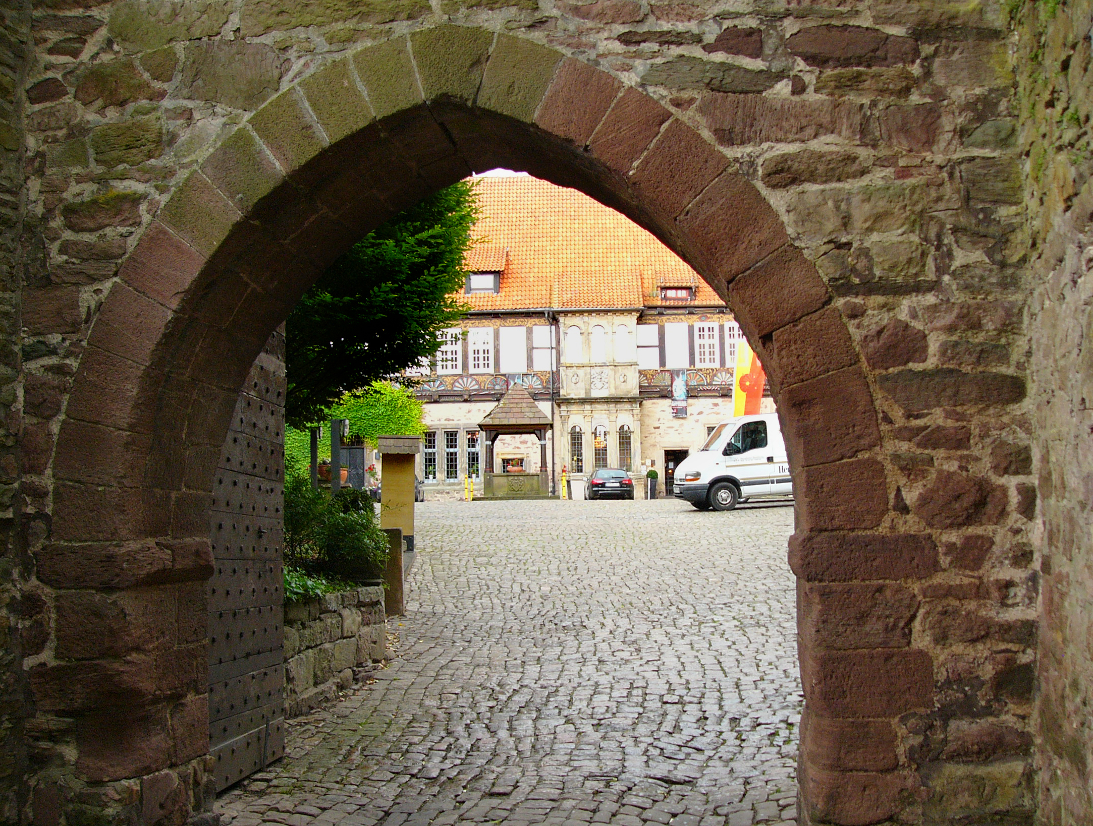 Blomberg castle, Germany, entrance and view to the courtyard